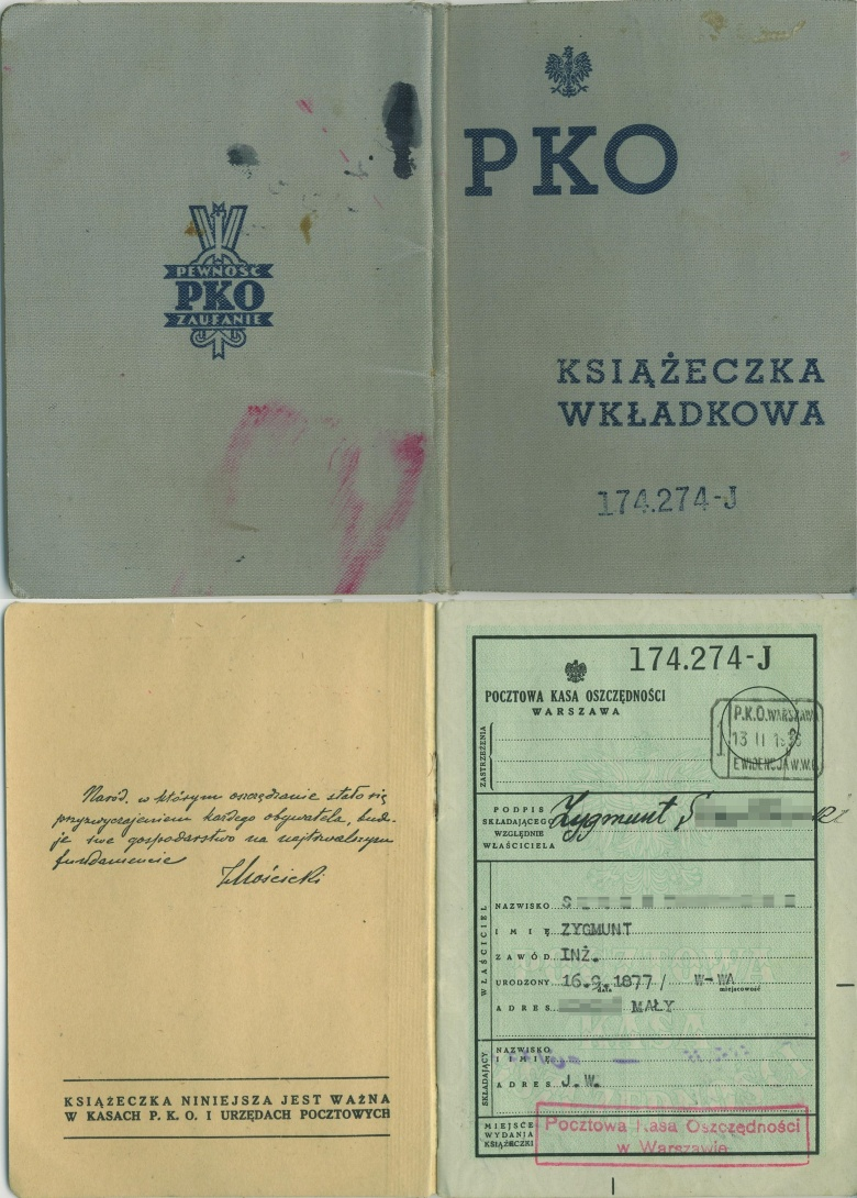 Savings booklet of Pocztowa Kasa Oszczędności (PKO) - Post Savings Bank in Poland, 1936 (cover and first page)